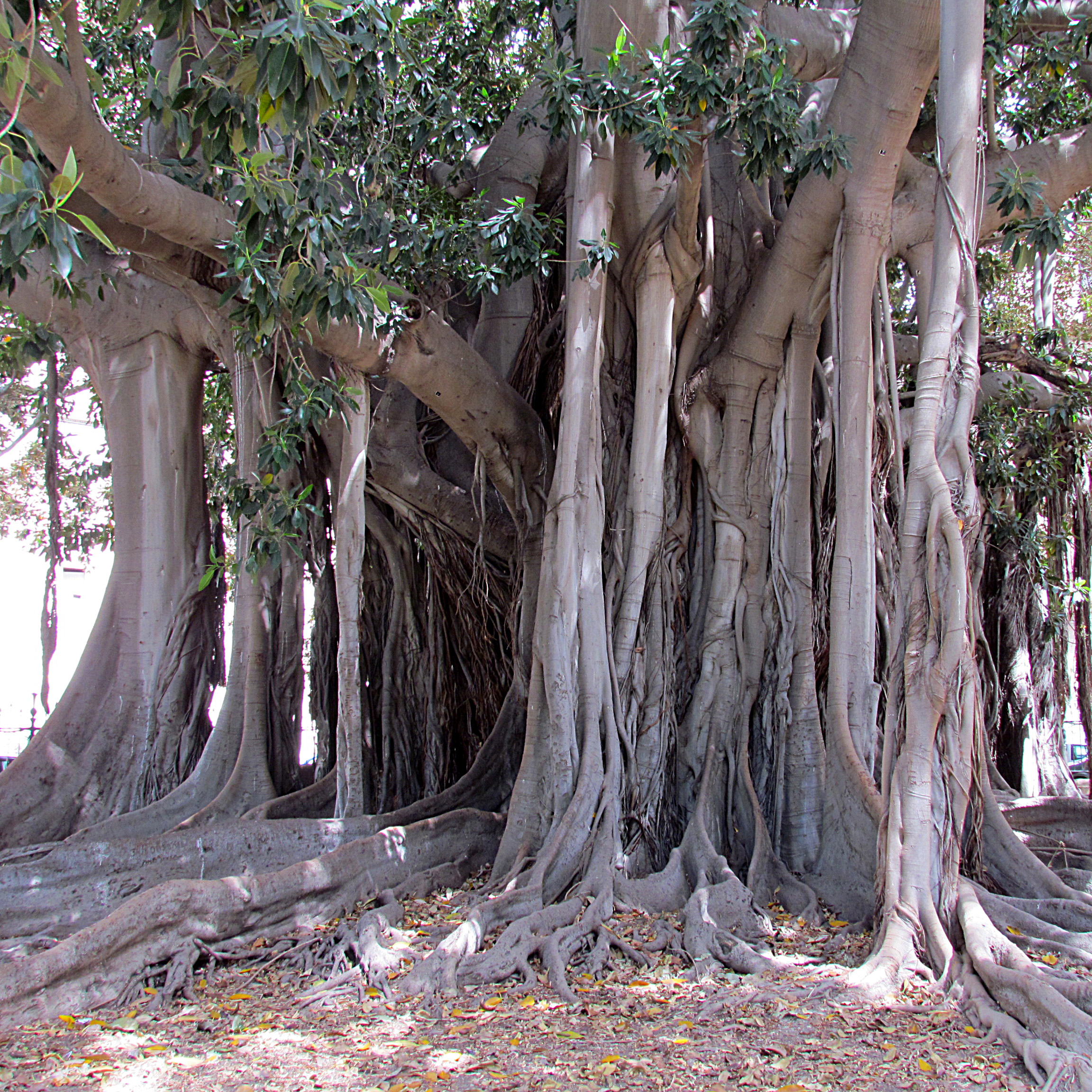 Ficus macrophylla, Giardino Garibaldi, Palermo, adventitious roots